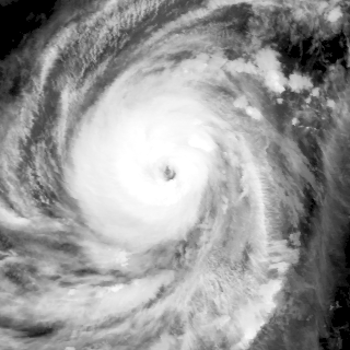 Super Typhoon Koppu (Lando) at its peak intensity on October 17, 2015, captured on the MTSAT-2 satellite.